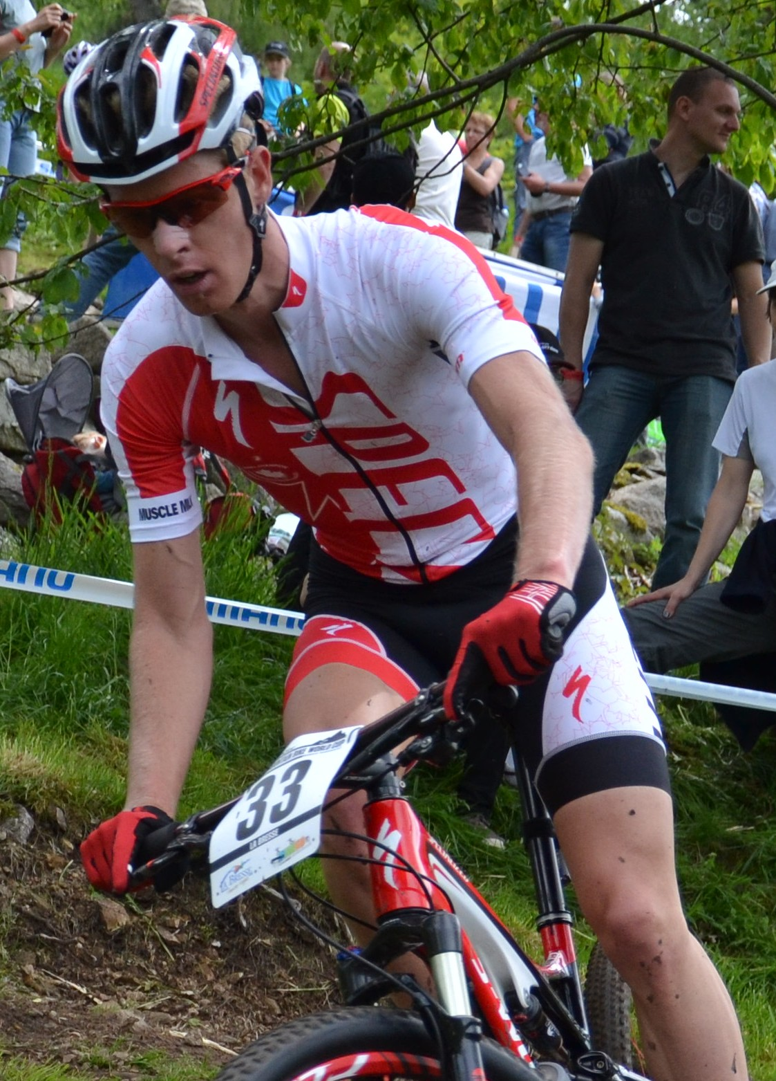 Max Plaxton